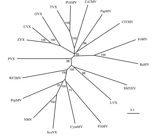 Phylogenetic tree of LVX's complete genome sequence compared to other potexviruses